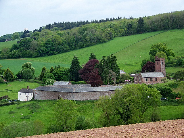 View of Dunchideock Dunchideock is Celtic and means 'the wooded fort or camp,' possibly referring to the earthwork of Cotley Castle which is nearby. The church is a late 14th century building, restored in 1875-7 and 1889, when the chancel was rebuilt.